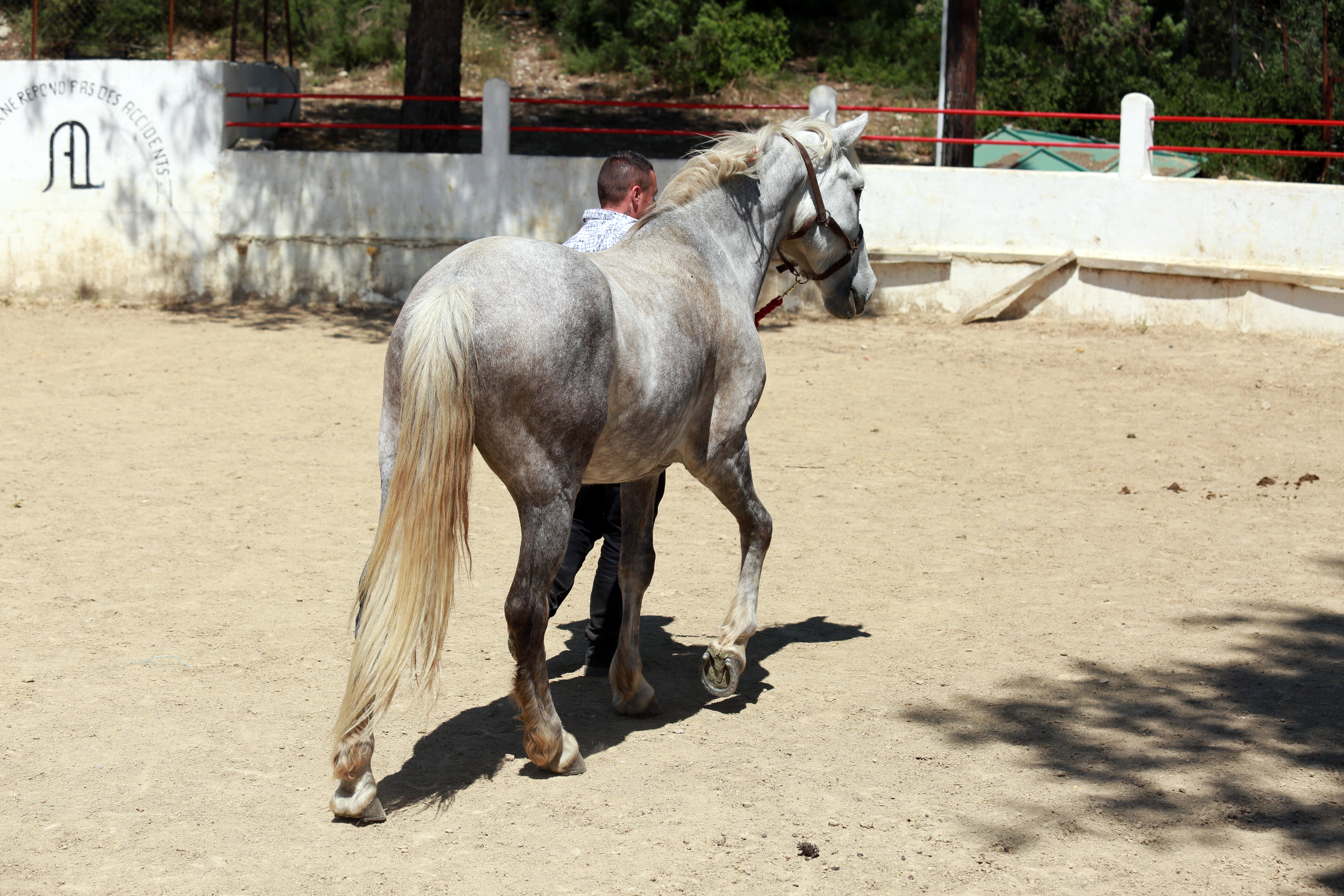 A ranch men educates a young horse to get him used to wearing equipment of the rider and lerning him to obedience.